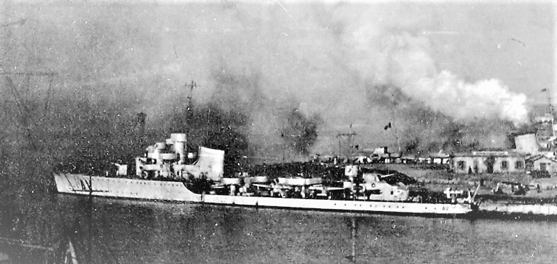 The Italian destroyer Aviere in Messina, 1941.